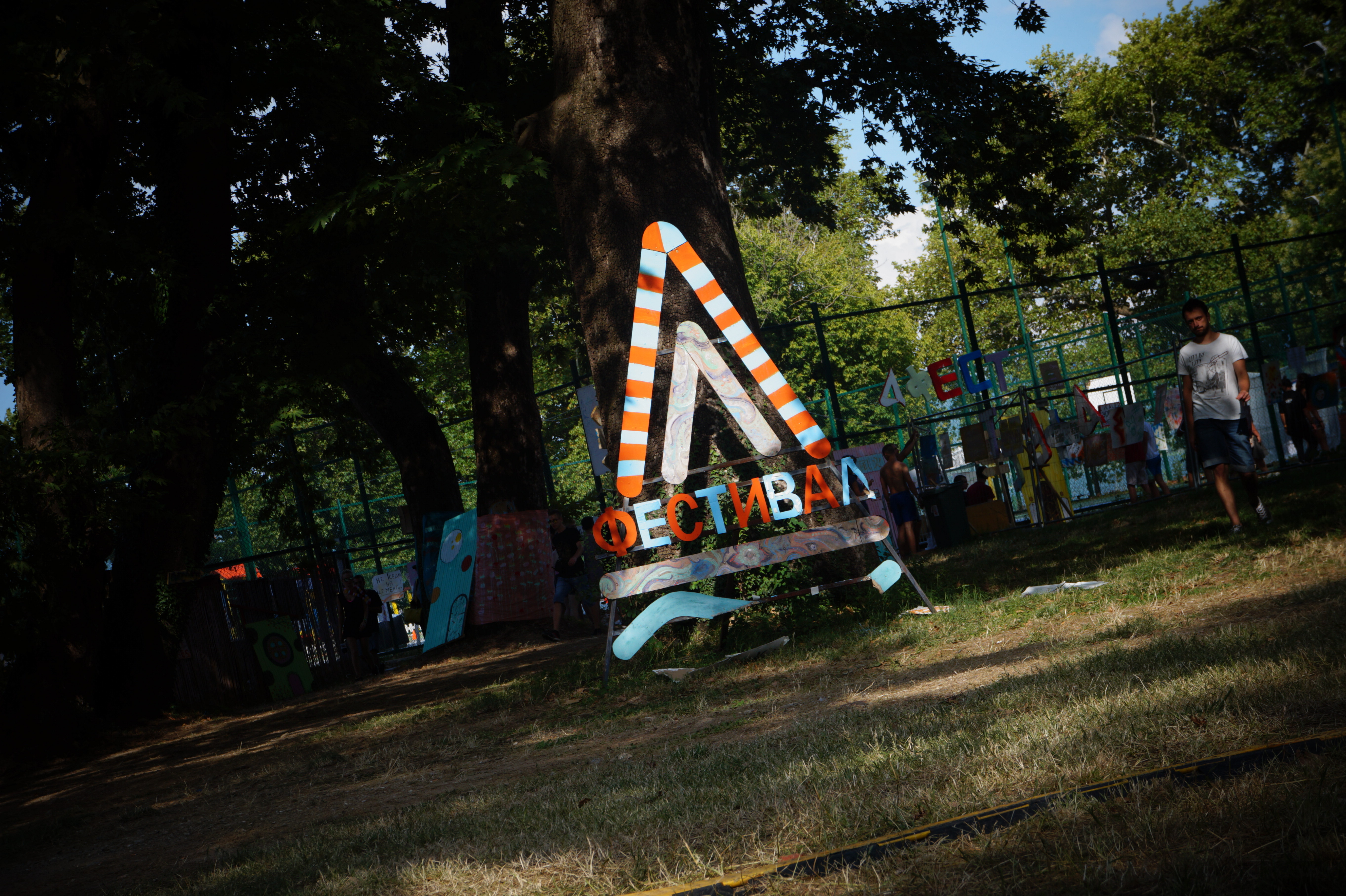 D Festival sculpture sign at the camp site